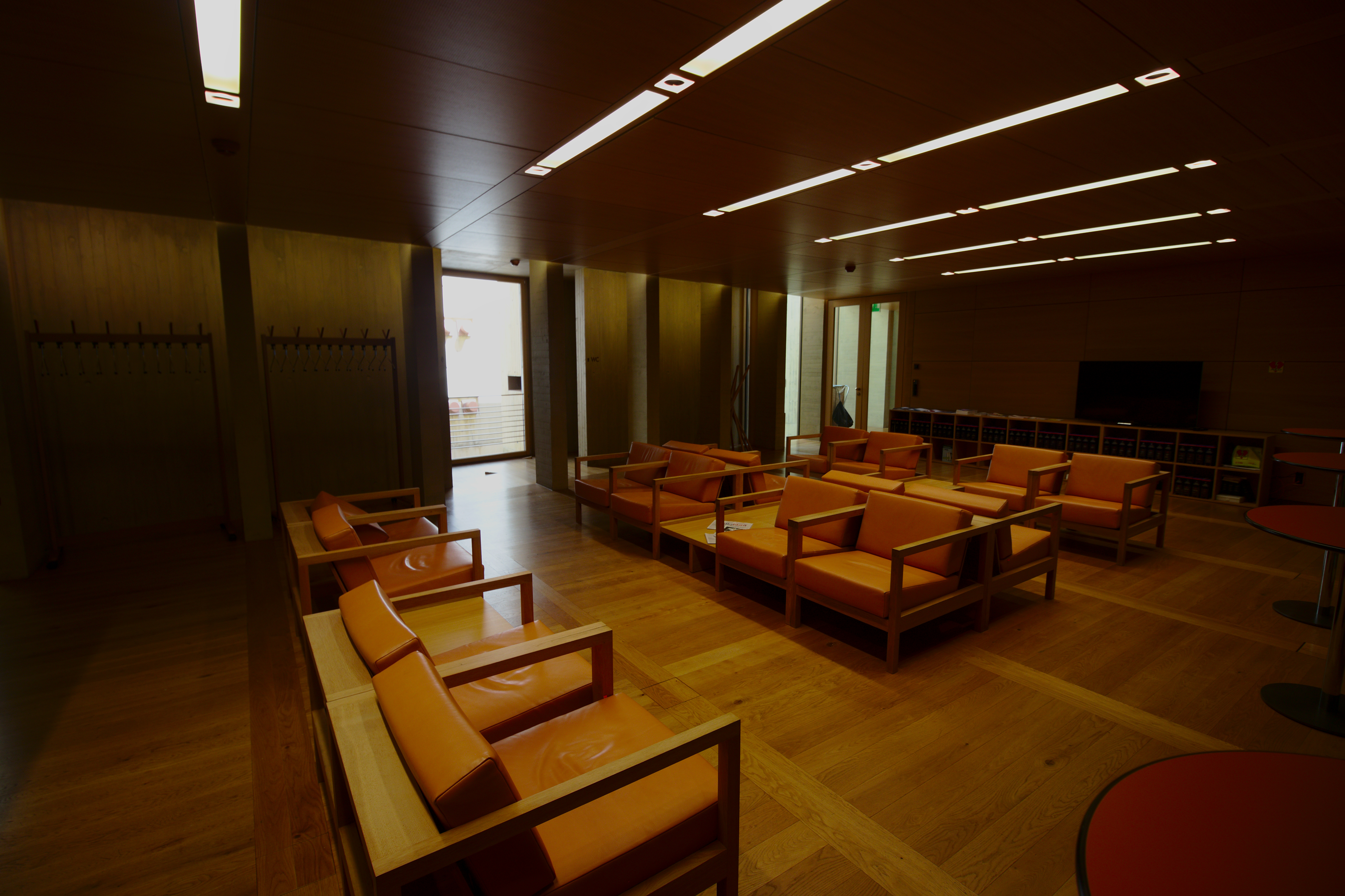 Landtag of the Principalty of Liechtenstein in Vaduz (building known as “Hohes Haus”)